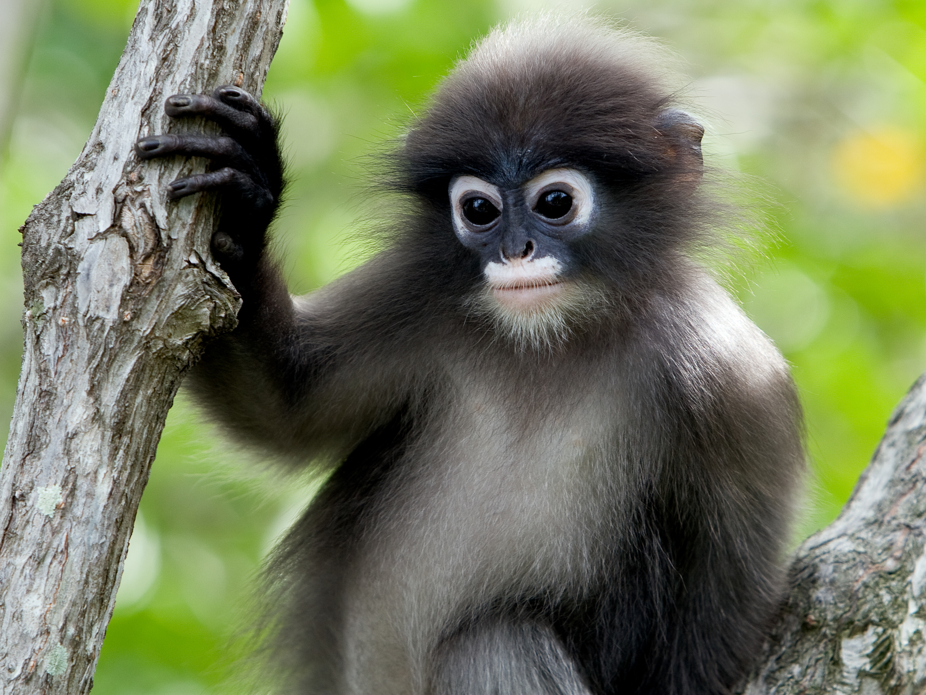 A young Dusky Leaf Monkey (Trachypithecus obscurus) in Khao Sam Roi Yot national park in Southern Thailand.